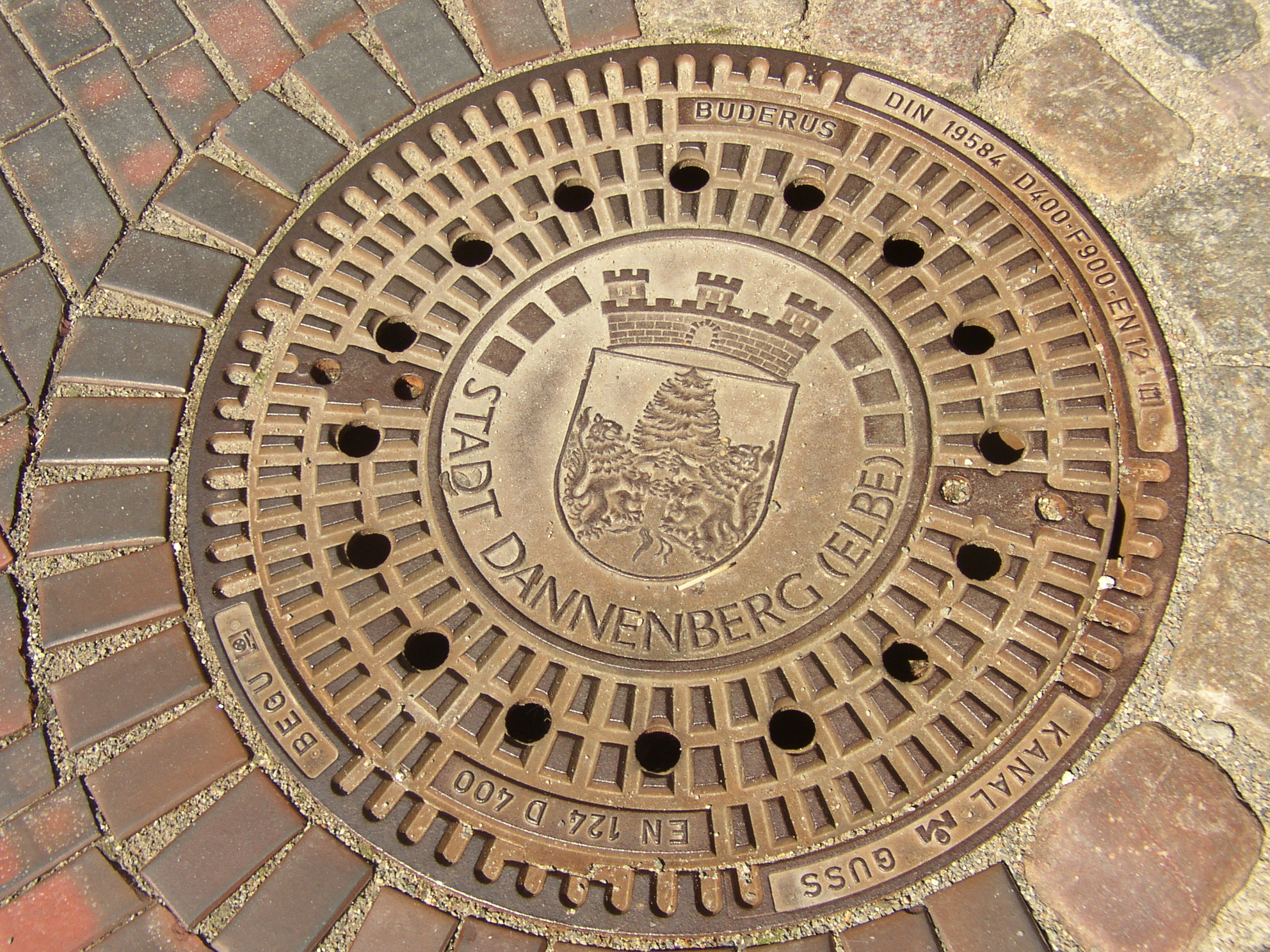 Manhole cover with coat of arms Stadt Dannenberg (Elbe)